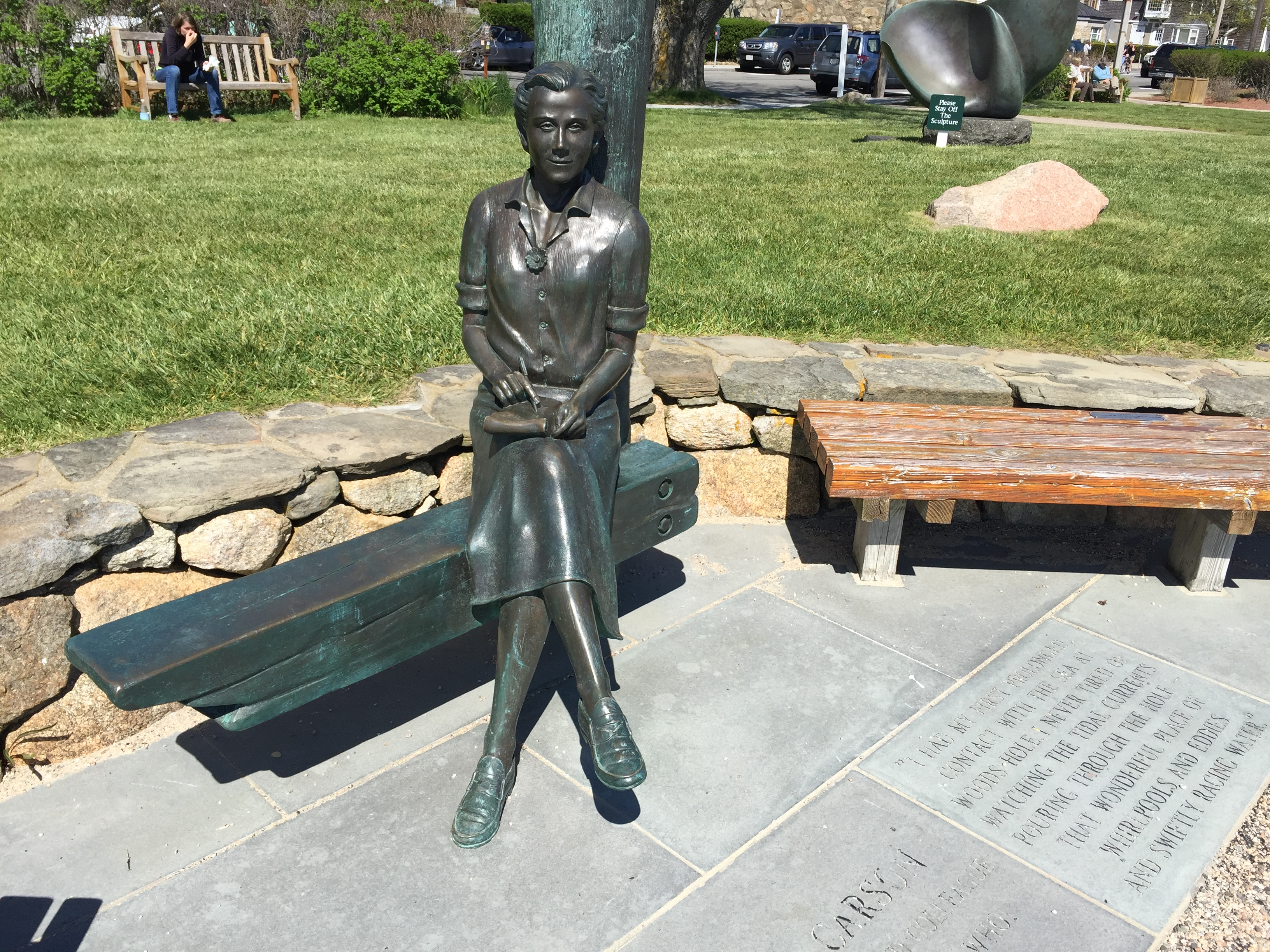 Woods Hole, Cape Cod